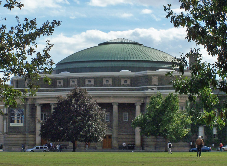 Convocation Hall, University of Toronto